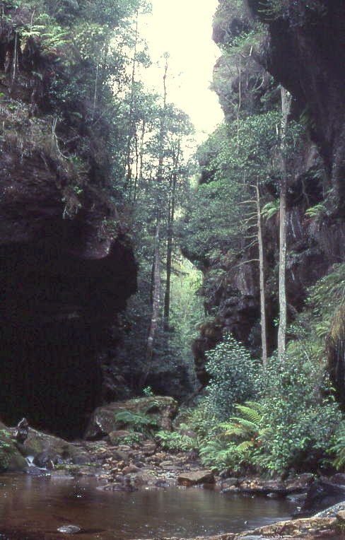 Grand Canyon, outside Blackheath, Blue Mts, NSW, Australia (Kodachrome slide scanned at 600)